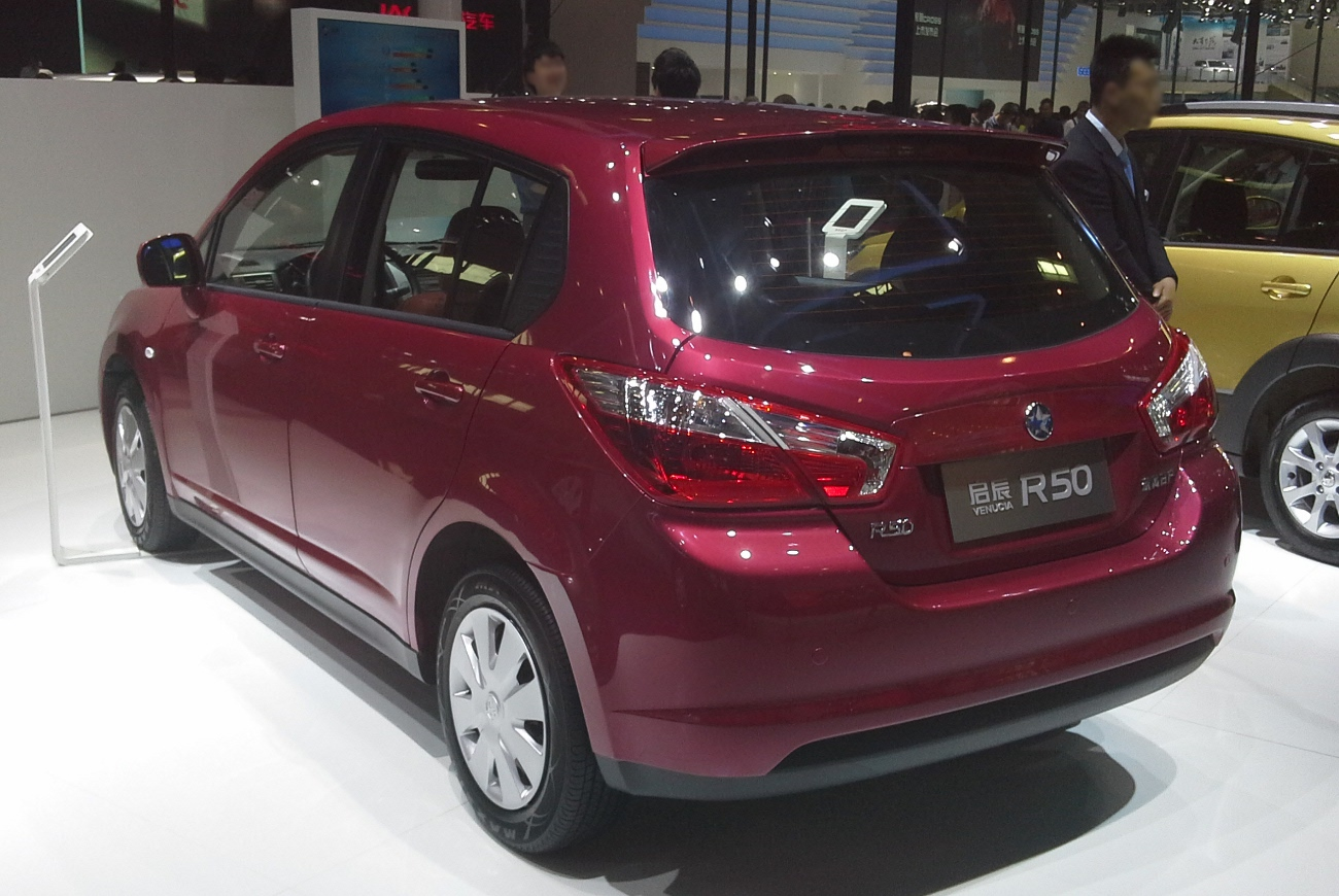 Venucia R50 photographed at the Auto China 2014, Beijing, China.